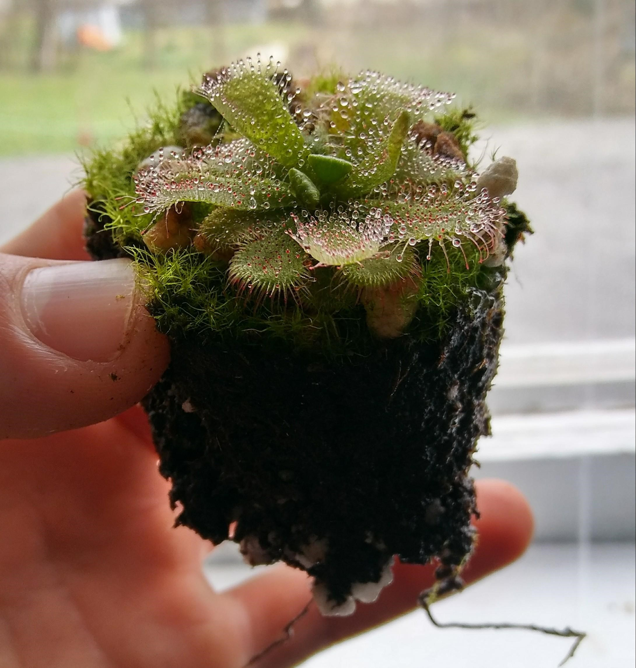 A photo of a 3 cm wide D. admirabilis being transplanted into a deeper container. Note the long roots dangling from the bottom.